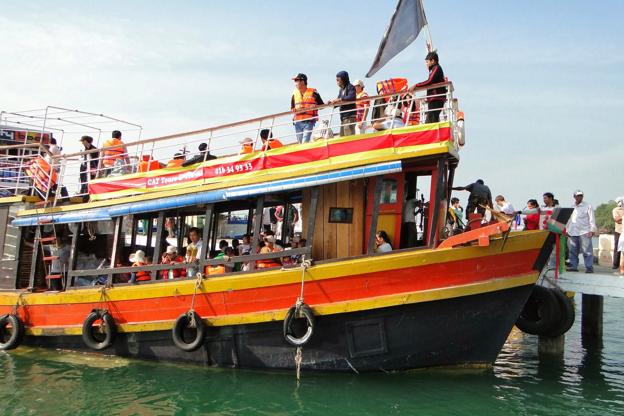 Im Hafen von Sihanoukville